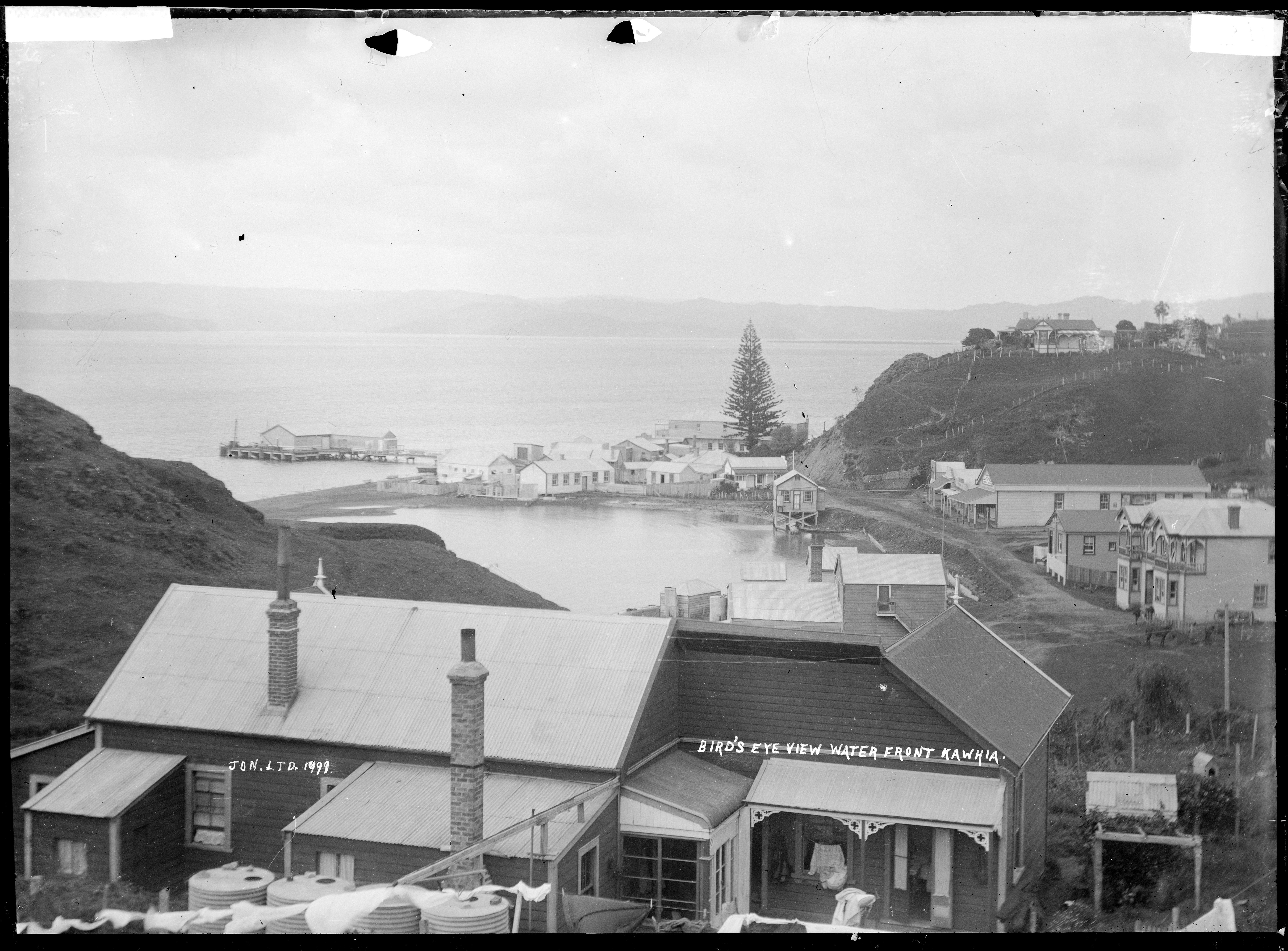 A view of the waterfront at Kawhia, Waikato region, with St Elmo boarding house in the foreground. Includes a cliff at each end of the inlet and houses around the harbour. At the far end amongst some houses is a large Norfolk Pine tree. Photograph taken between 1908-1915 by Jonathan Ltd. Inscriptions: Inscribed - Photographer's title on negative -bottom right: Photographer's title: Bird's eye view waterfront Kawhiabottom left: JON LTD 1999. Quantity: 1 b&w original negative(s). Physical Description: Glass negative Jonathan Ltd. The waterfront, Kawhia, Waikato region, with St Elmo boarding house in foreground - Photograph taken by Jonathan Ltd. Price, William Archer, 1866-1948 :Collection of post card negatives. Ref: 1/2-000416-G. Alexander Turnbull Library, Wellington, New Zealand.